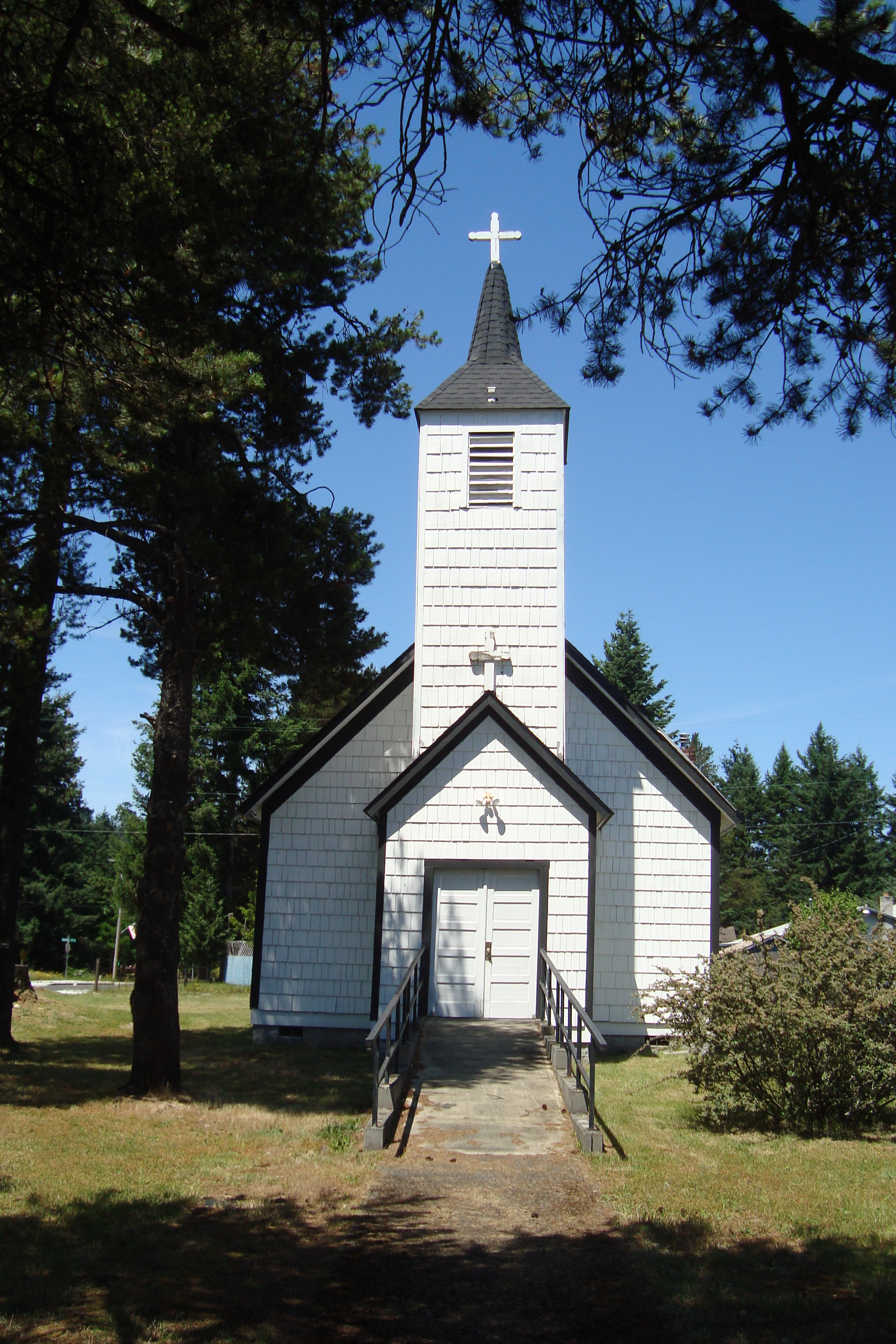 This church in Rainier, Washington was built in 1896 by brothers Albert, Theodore, and Paul Gehrke. Originally used as a school and a church, it is now rented for weddings.